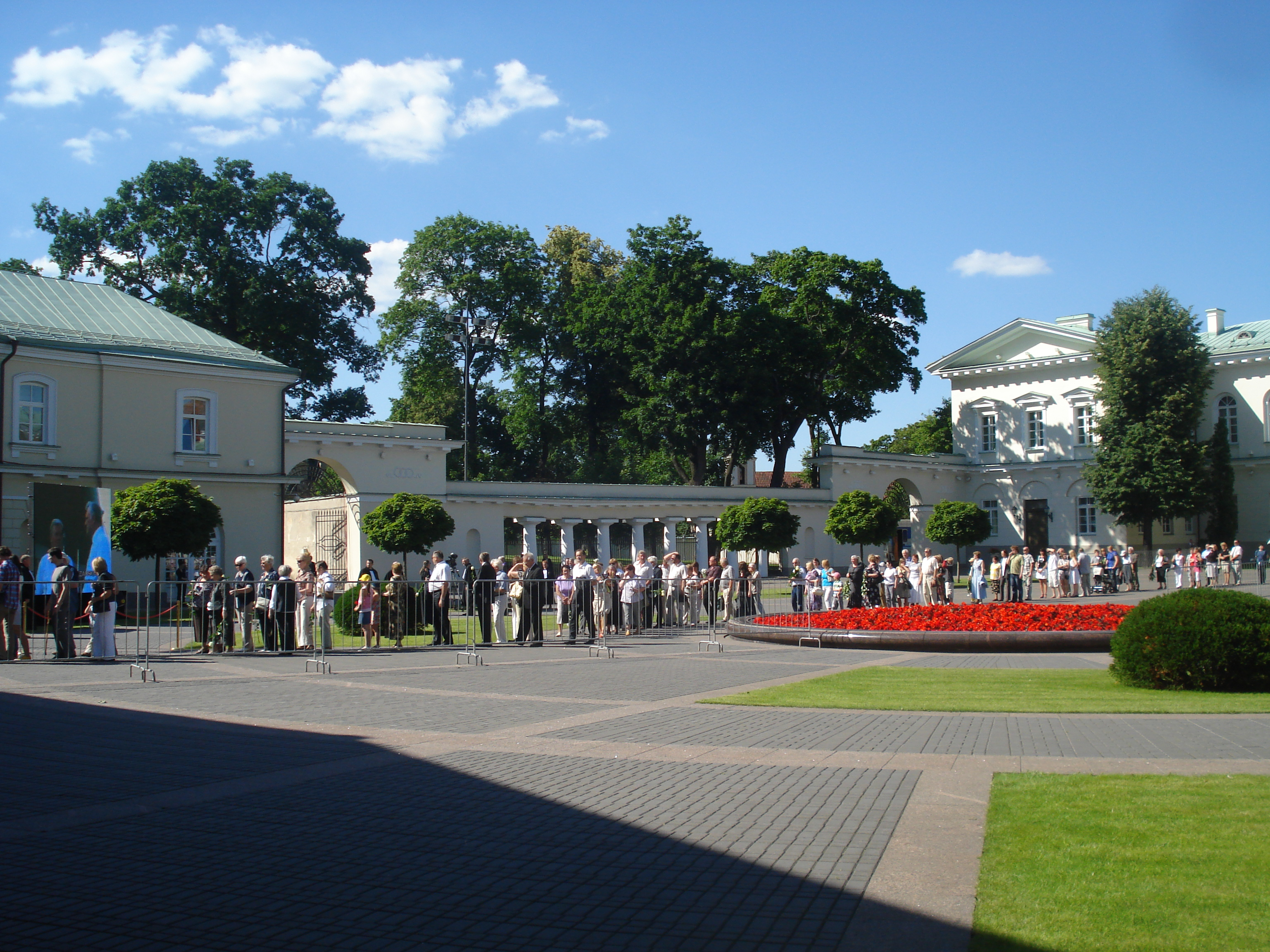 Mourners queue to pay their last respects to the former Lithuanian President Algirdas Brazauskas in the President palace in Vilnius, Lithuania